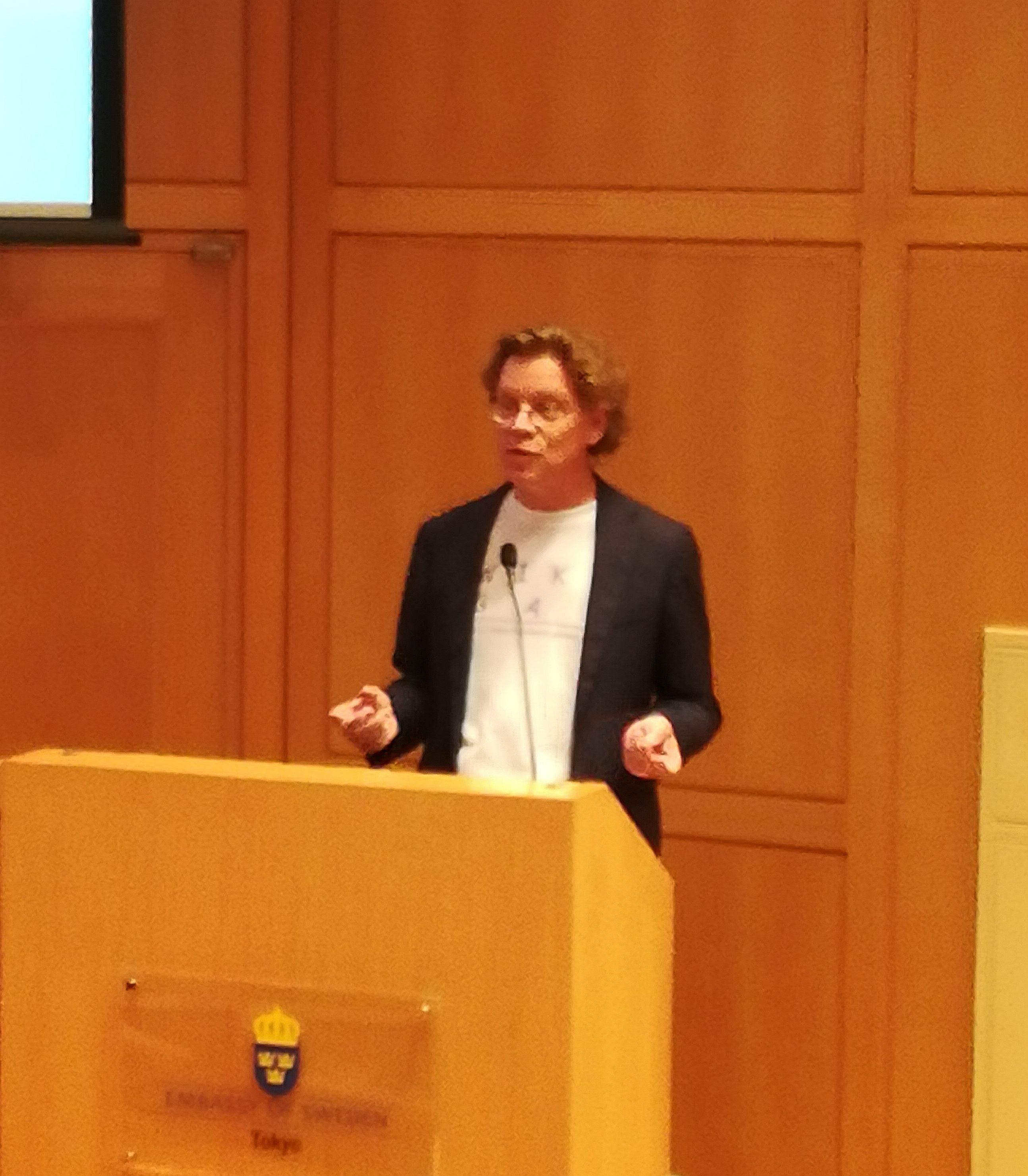 Swedish ambassador Pereric Högberg